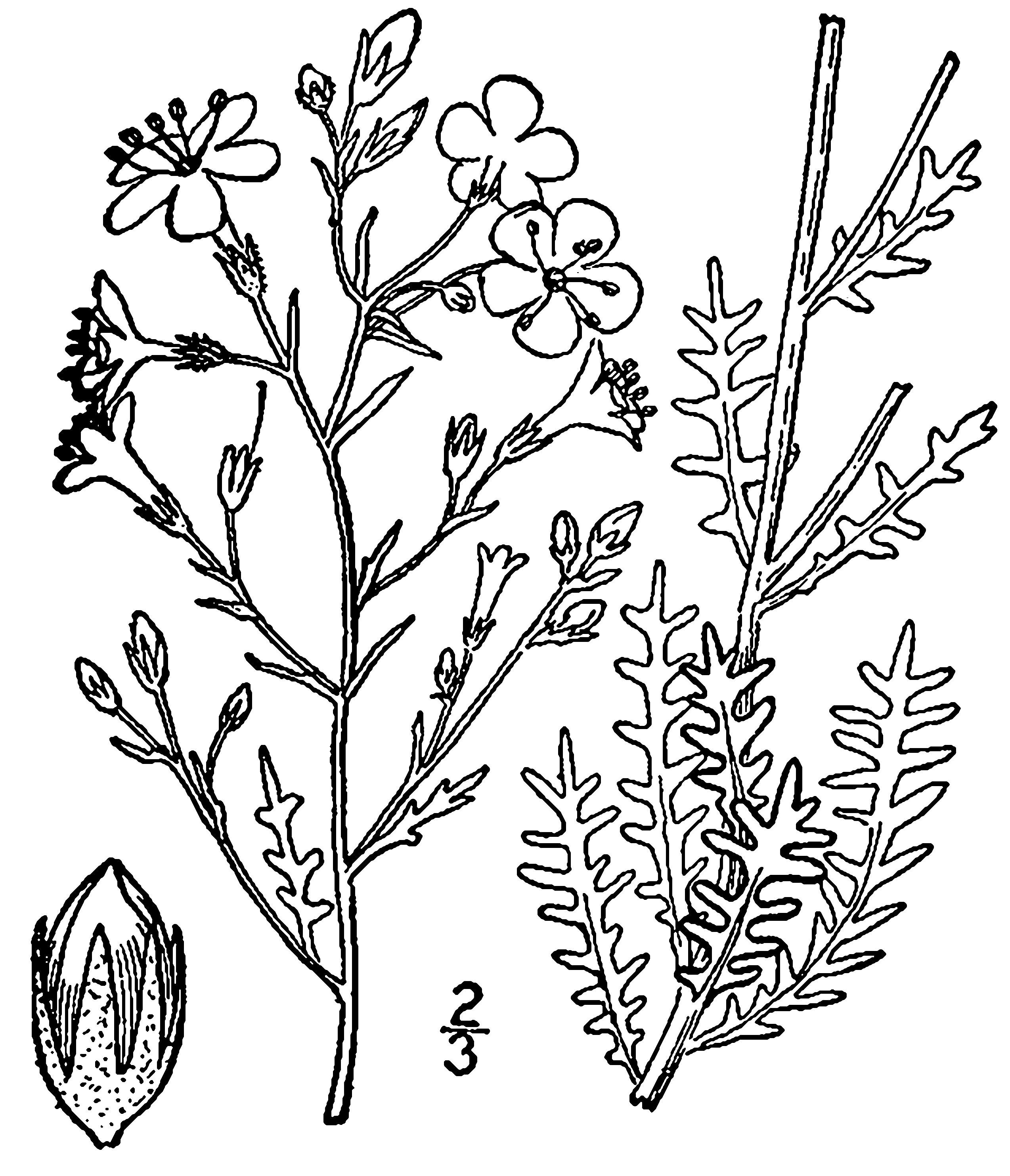 Sticky Gilia. Family Polemoniaceae. Drawing.